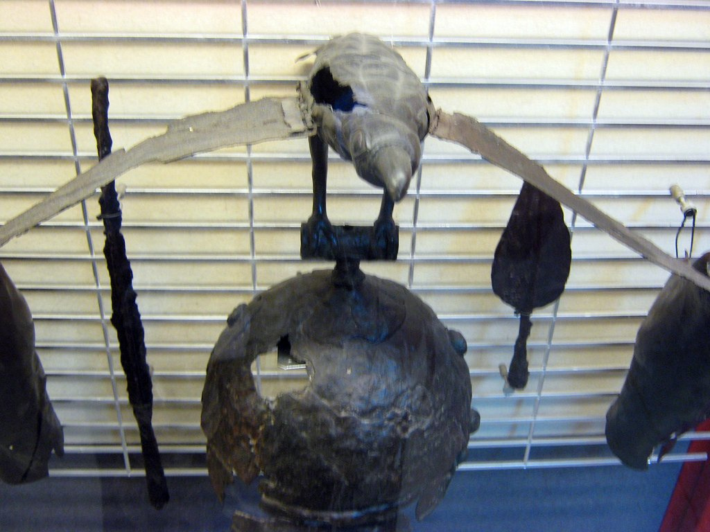 A Dacian found Celtic Iron Age raven totem helmet, dated around 4th century BC. Made of bronze and iron, by forging and striking. This is a very close replica, while the original is kept at the National Museum of Romanian History. A similar helmet is depicted on the Gundestrup cauldron, being worn by one of the mounted warriors (detail tagged here). See also an illustration of Brennos wearing a similar helmet.